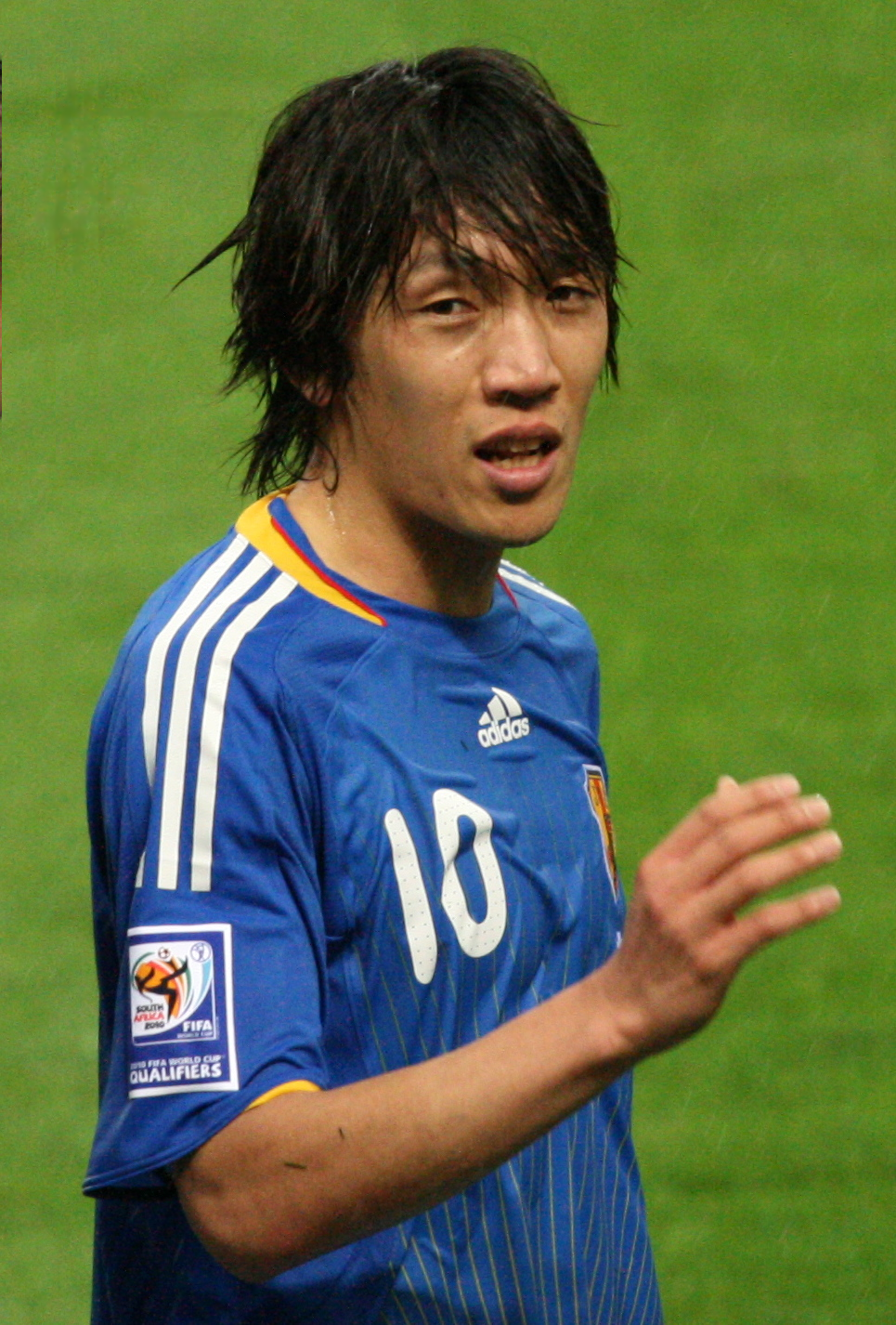 Shunsuke Nakamura, after Japan's world cup qualifier against Bahrain on June 22, 2008